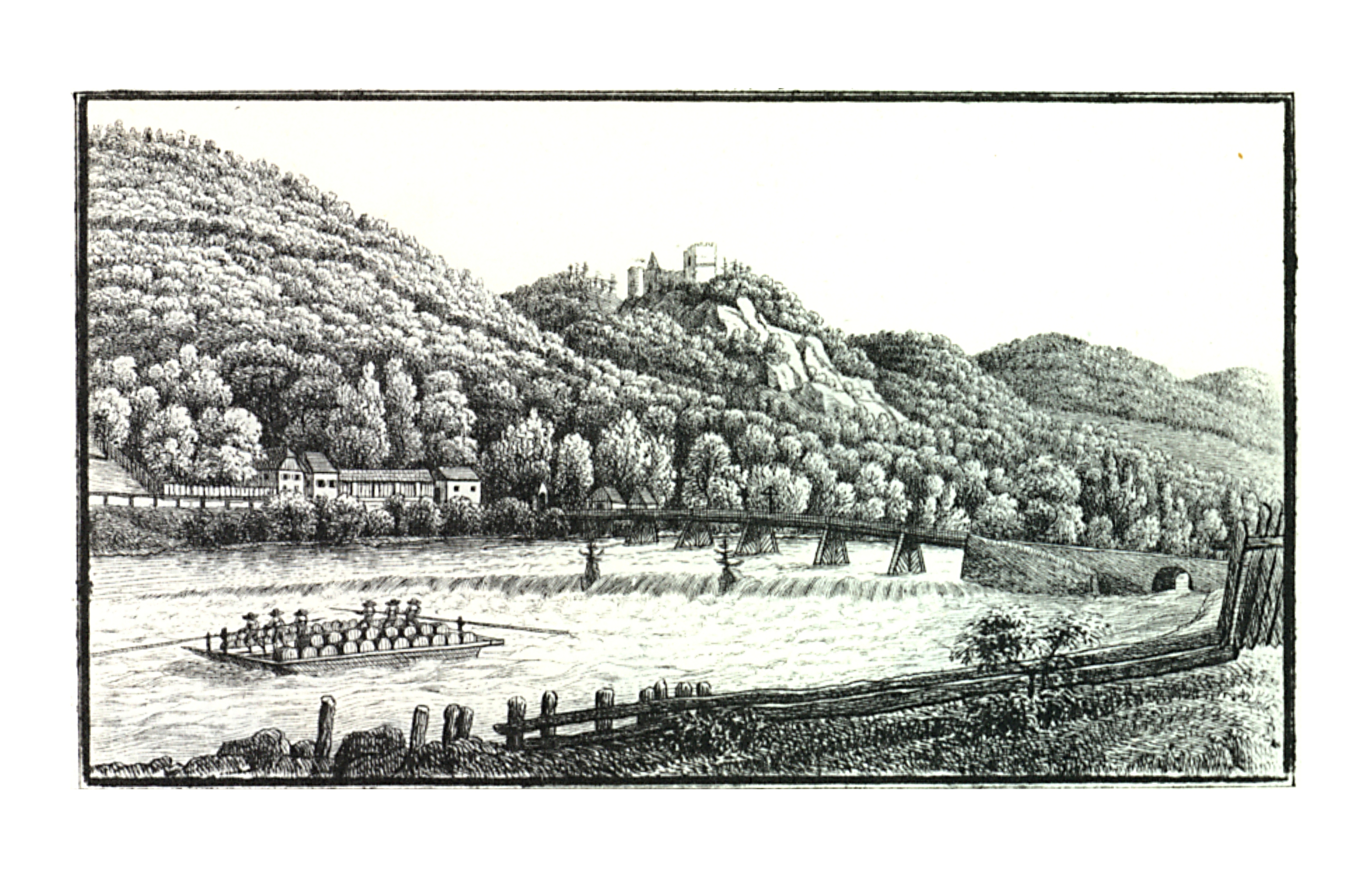 J. F. Kaiser - lithographirte Ansichten der Steyermärkischen Städte, Märkte und Schlösser, Graz 1824-1833 Joseph Franz Kaiser (1786–1859) Alternative names J. F. KaiserDescriptionAustrian printer and editorDate of birth/death 11 March 1786 19 September 1859Location of birth/death Graz (Styria) GrazAuthority control : Q1499963 VIAF: 30629353 ISNI: 0000 0000 3083 0153 LCCN: n87141671 GND: 129880159 NLP: A24960305 WorldCat creator QS:P170,Q1499963 . Scanprojekt Community Projektbudget 2012 This scan or this PDF-file was created within the GLAM-project Bookscanning, supported by Wikimedia Germany and Wikimedia Austria as a part of the community-project to capture books, documents and pictures which are not eligible to copyright or for which the copyright has expired. This document describes or depicts an object which is located in Austria today. Send requests for uncompressed scans to Hubertl. This work is in the public domain in its country of origin and other countries and areas where the copyright term is the author's life plus 100 years or less. You must also include a United States public domain tag to indicate why this work is in the public domain in the United States. This file has been identified as being free of known restrictions under copyright law, including all related and neighboring rights.